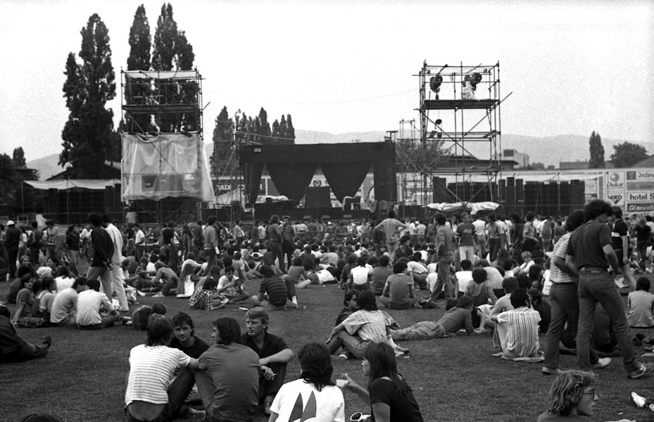 Dire Straits, 12th July 1983, Stadion Kranjčevićeva, Zagreb